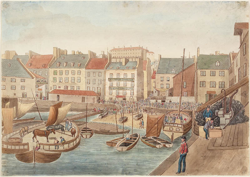 Lower Market Place, McCallum's Wharf, Québec, Quebec, July 4, 1829. Watercolour, pen and ink on wove paper.